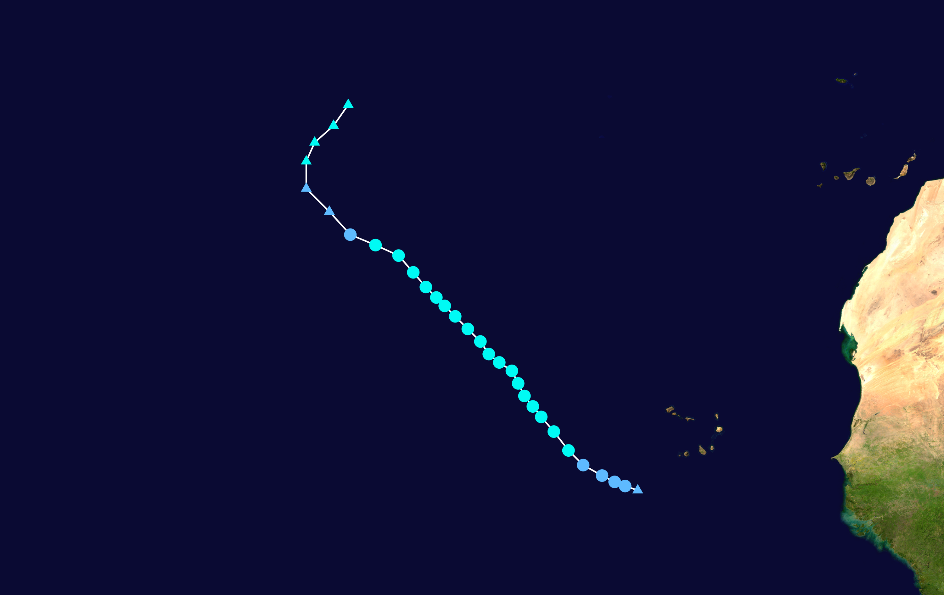 Track map of Tropical Storm Lisa of the 2016 Atlantic hurricane season. The points show the location of the storm at 6-hour intervals. The colour represents the storm's maximum sustained wind speeds as classified in the Saffir–Simpson scale (see below), and the shape of the data points represent the nature of the storm, according to the legend below. Saffir–Simpson scale Tropical depression≤38 mph≤62 km/h Category 3111–129 mph178–208 km/h Tropical storm39–73 mph63–118 km/h Category 4130–156 mph209–251 km/h Category 174–95 mph119–153 km/h Category 5≥157 mph≥252 km/h Category 296–110 mph154–177 km/h Unknown Storm type Tropical cyclone Subtropical cyclone Extratropical cyclone / Remnant low / Tropical disturbance / Monsoon depression